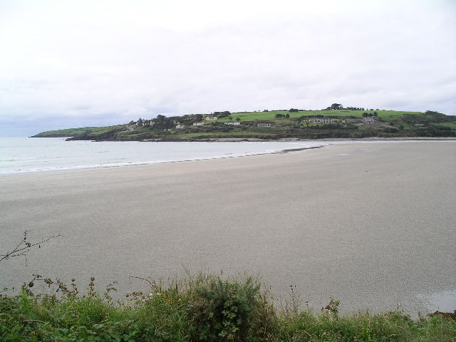 Inchydoney Island: Beach. Adjacent to Inchydoney Spa and Hotel.